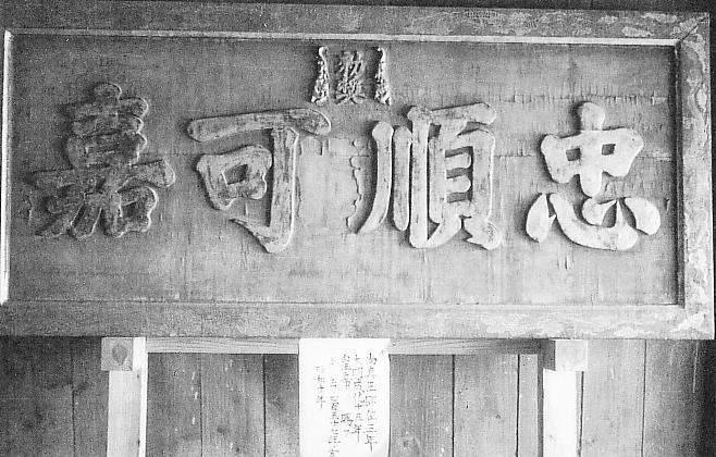 Imperial Tablet which was sent by the Chinese (Ming Dynasty) Emperor Chenghua